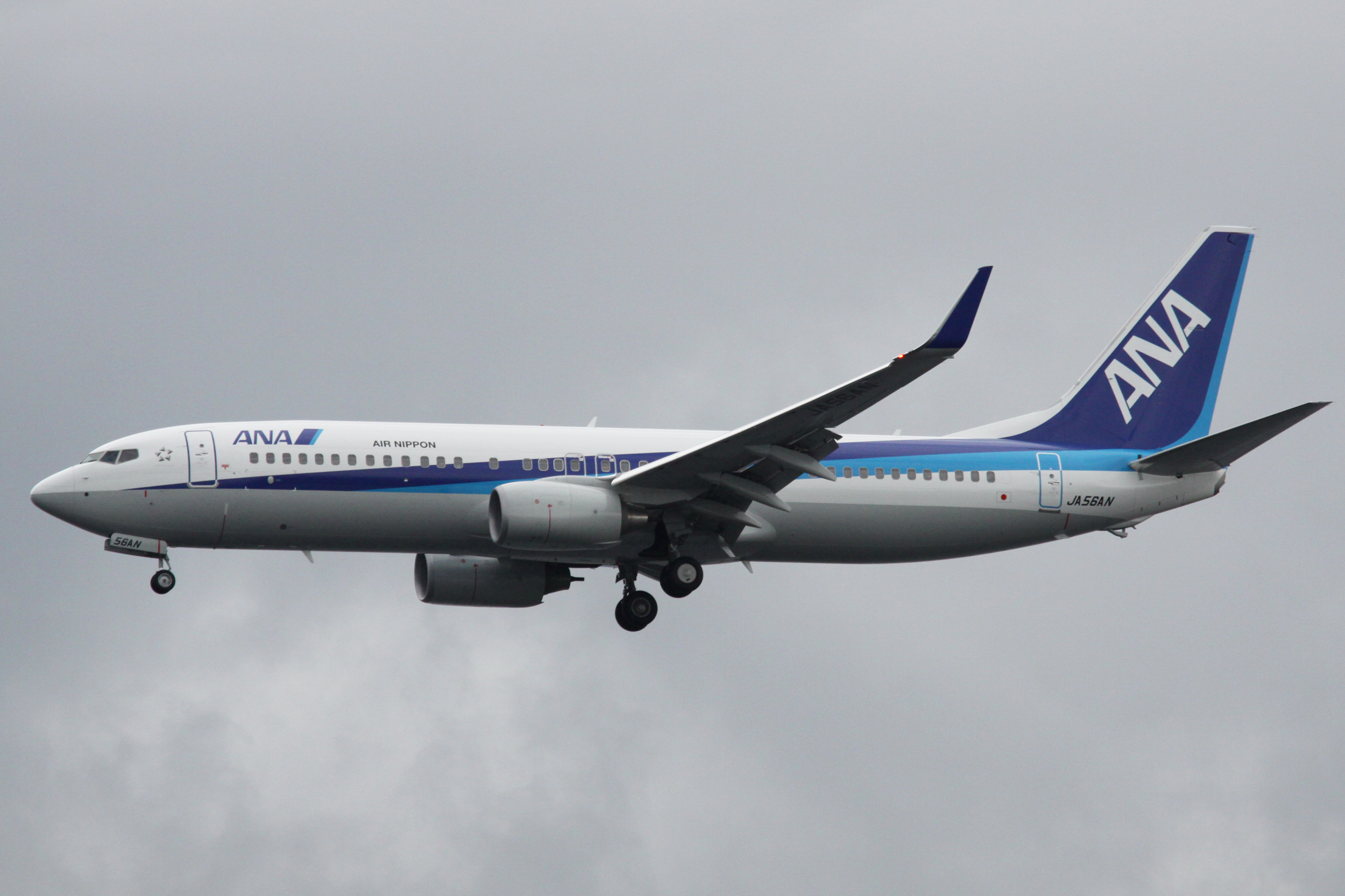 Air Nippon(ANK) Final approach to Runway 34L, Tokyo International Airport.